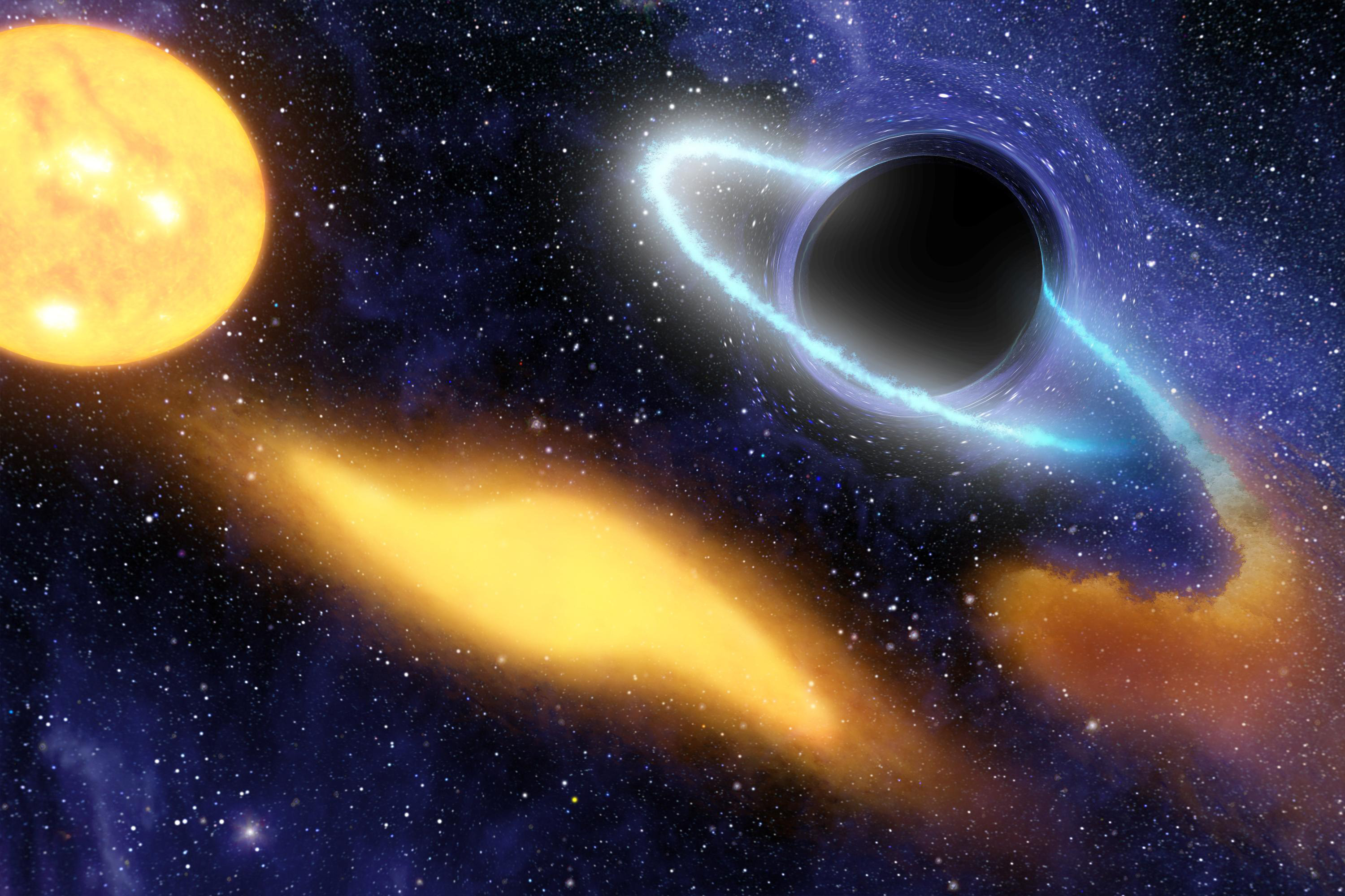 Black hole consuming star This artist's concept shows a supermassive black hole at the center of a remote galaxy digesting the remnants of a star. NASA's Galaxy Evolution Explorer had a "ringside" seat for this feeding frenzy, using its ultraviolet eyes to study the process from beginning to end. The artist's concept chronicles the star being ripped apart and swallowed by the cosmic beast over time. First, the intact sun-like star (left) ventures too close to the black hole, and its own self-gravity is overwhelmed by the black hole's gravity. The star then stretches apart (middle yellow blob) and eventually breaks into stellar crumbs, some of which swirl into the black hole (cloudy ring at right). This doomed material heats up and radiates light, including ultraviolet light, before disappearing forever into the black hole. The Galaxy Evolution Explorer was able to watch this process unfold by observing changes in ultraviolet light. The area around the black hole appears warped because the gravity of the black hole acts like a lens, twisting and distorting light.